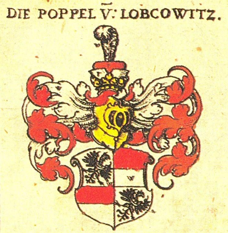 Coat of arms of Lobkowicz